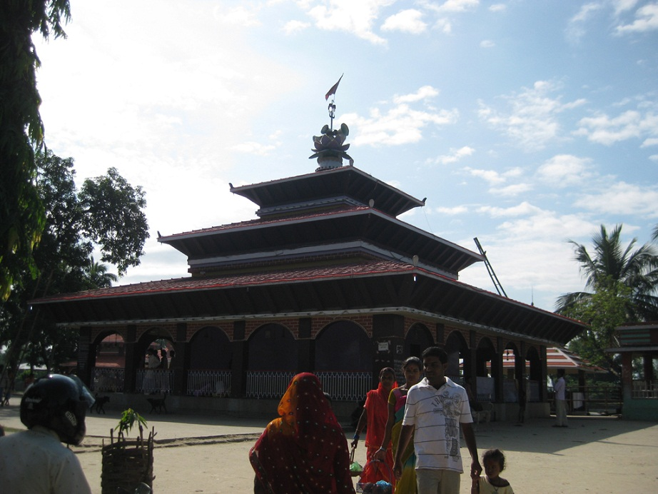 A Famous Temple of Eastern Part of Nepal.